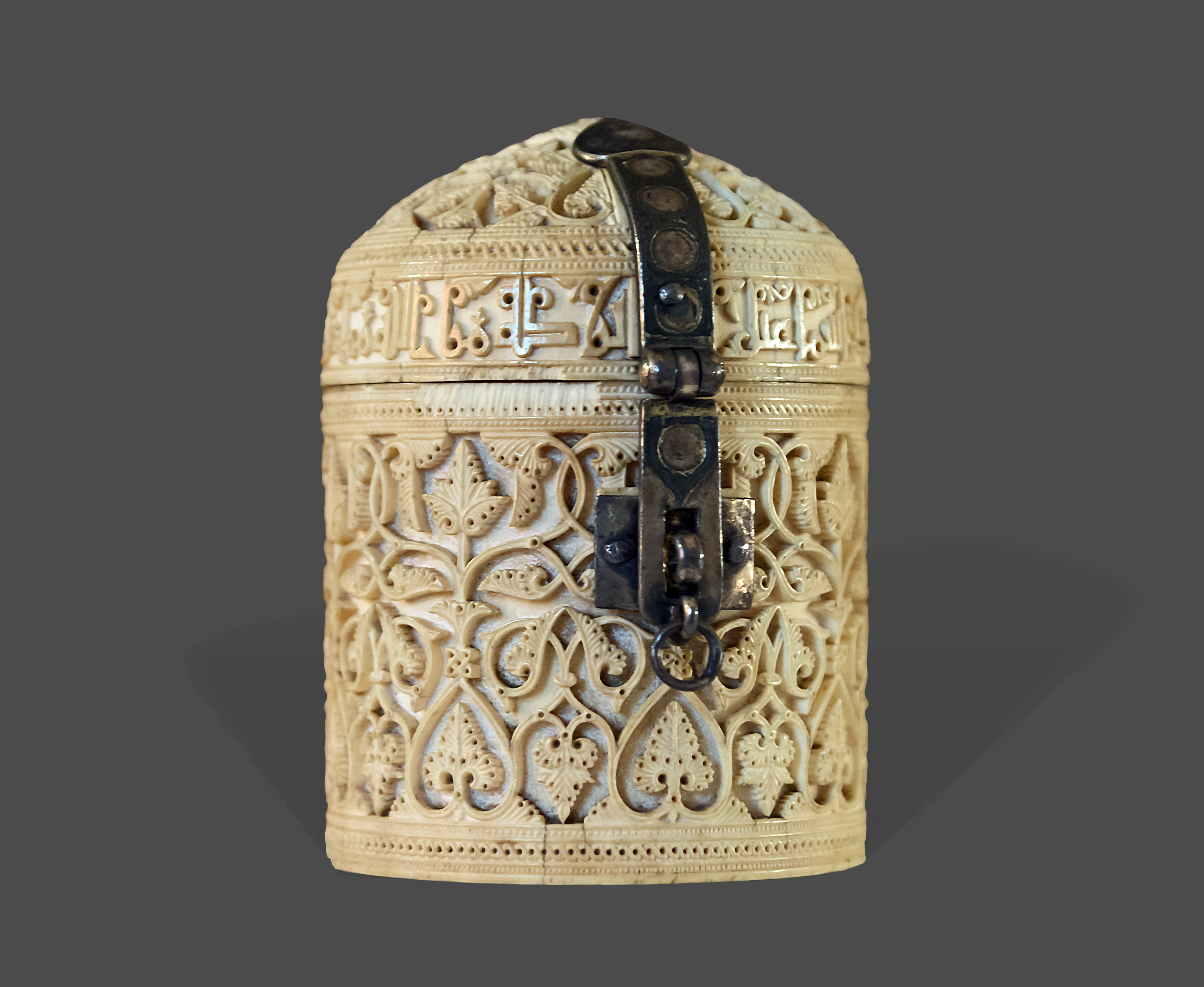 The pyxis in the name of Ismail. Treasure of the Cathedral Saint-Just-et-Saint-Pasteur Narbonne. Work of Arab origin, in a single block of ivory. The inscription at the base of the cover, is in Kufic and glorifies Ismail al-Zafir first king of the Taifa of Toledo. It subsequently served for Christian worship to keep the hosts. It was created by Muhammad ibn Zayyan between 1026 and 1031 to Cuenca (Spain).